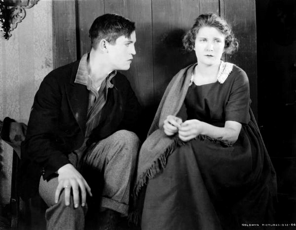 Chester Morris and Mae Marsh in a scene still for the 1918 Goldwyn silent drama The Beloved Traitor.